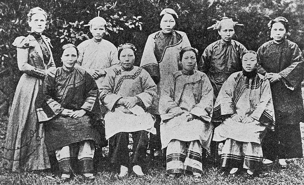 Miss Hartwell and bible women in the Foochow Mission, 1902.